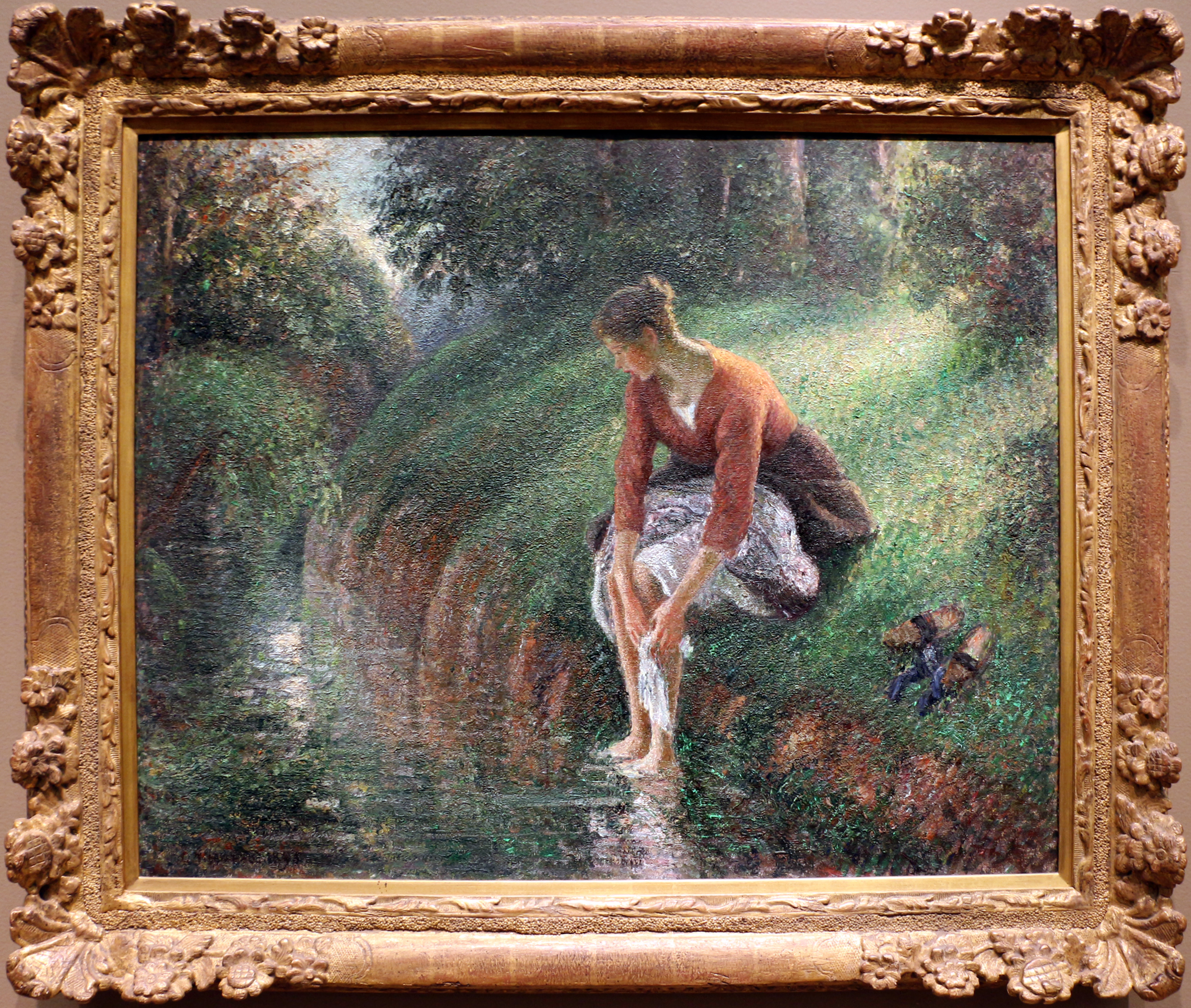 French paintings in the Art Institute of Chicago